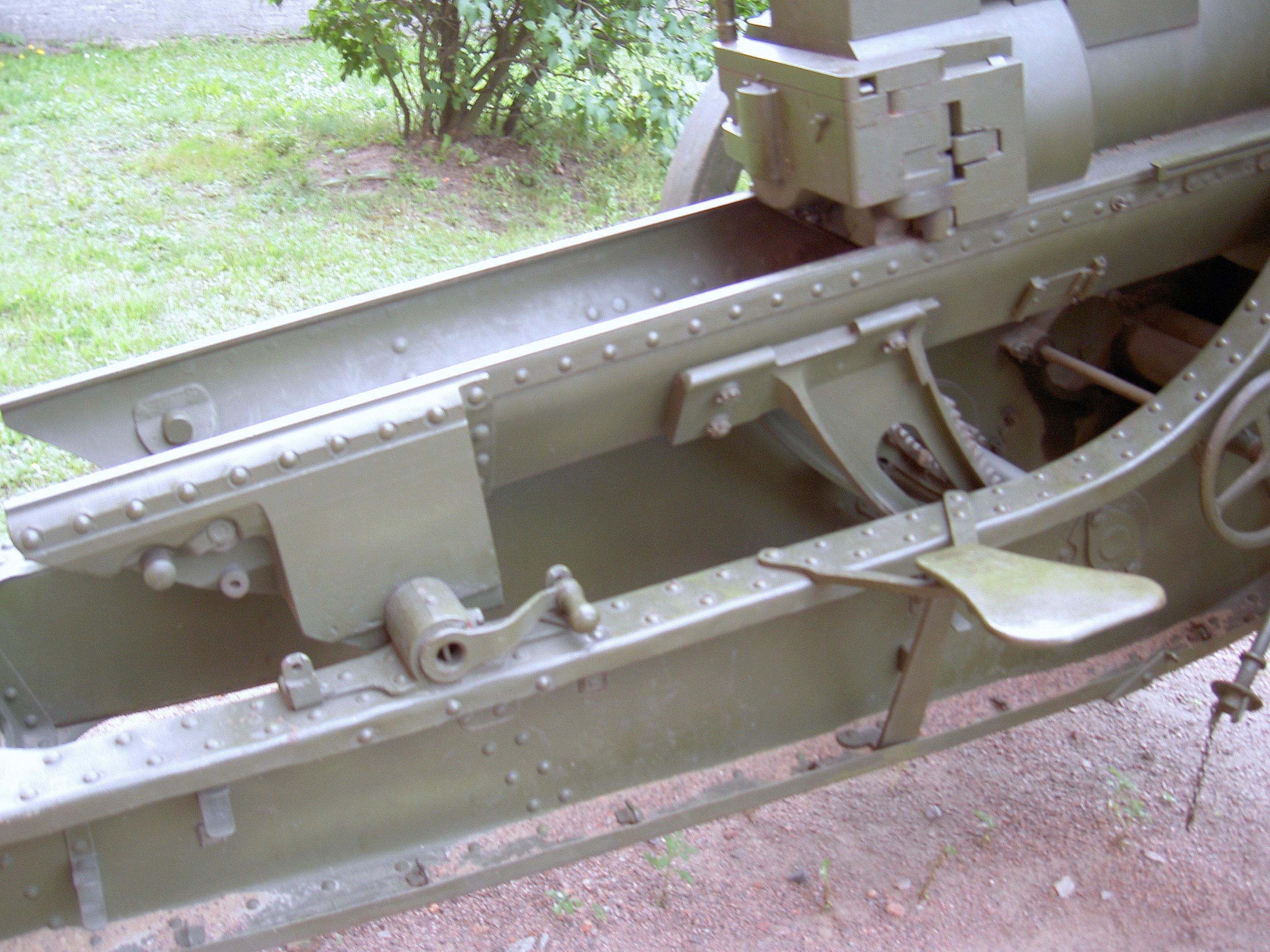 107-mm gun (1910/1930) in Saint Petersburg Artillery museum